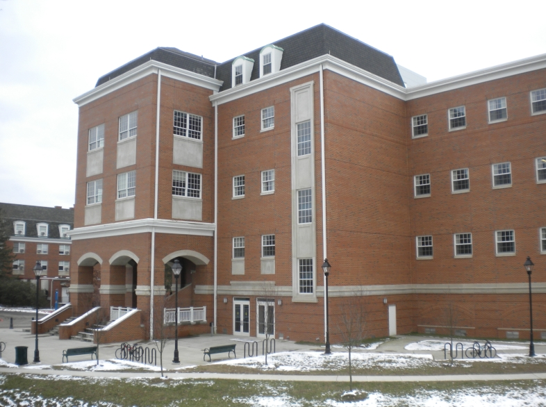 The Academic and Research Center was the largest building of its kind in the state of Ohio at the time of its completion in 2009